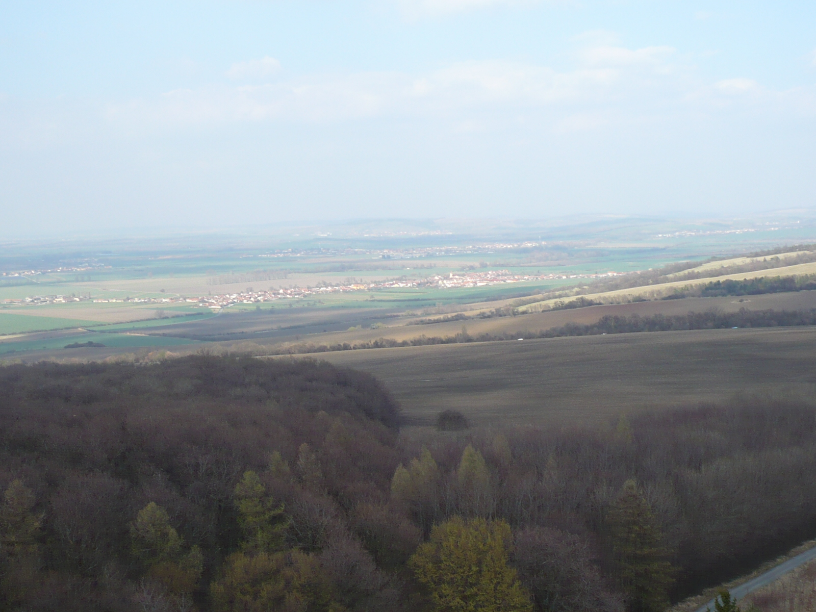 Observation Tower Travicna, Tvarožná Lhota, Hodonín, Czech Republic